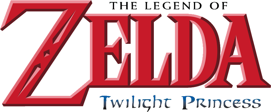 Logotype of The Legend of Zelda: Twilight Princess.